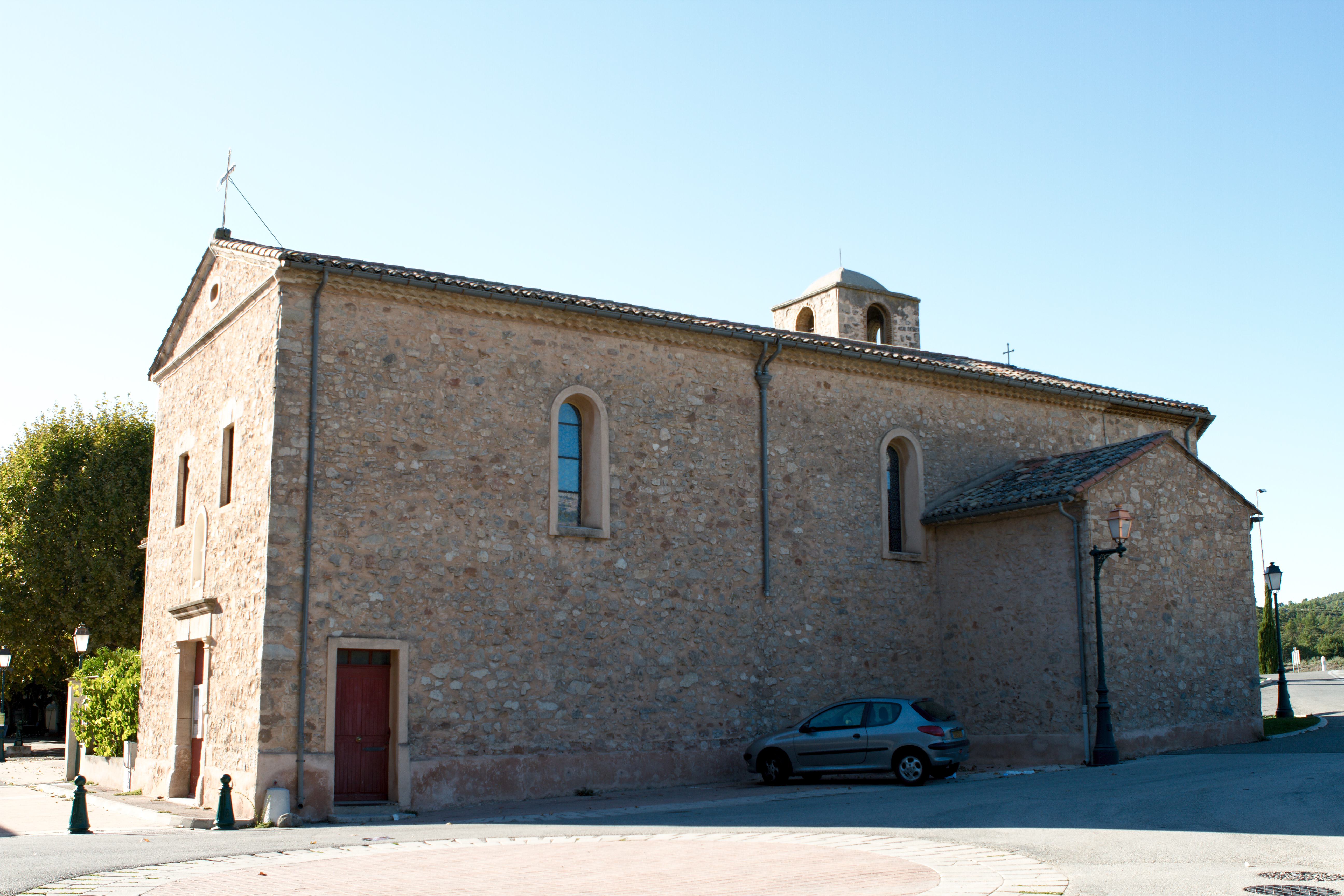 Church Saint-Antoine in Châteauneuf-le-Rouge, Bouches-du-Rhône (France).